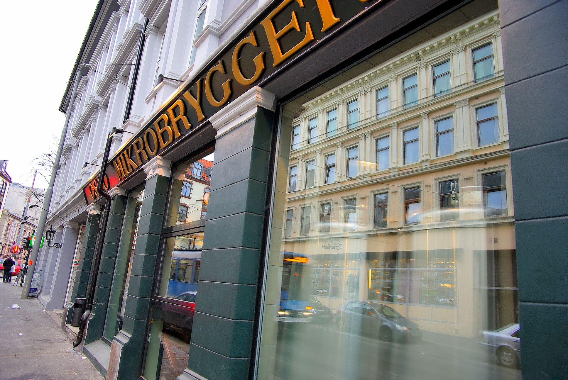 Oslo Mikrobryggeri, a micro-brewery in Oslo, Norway.